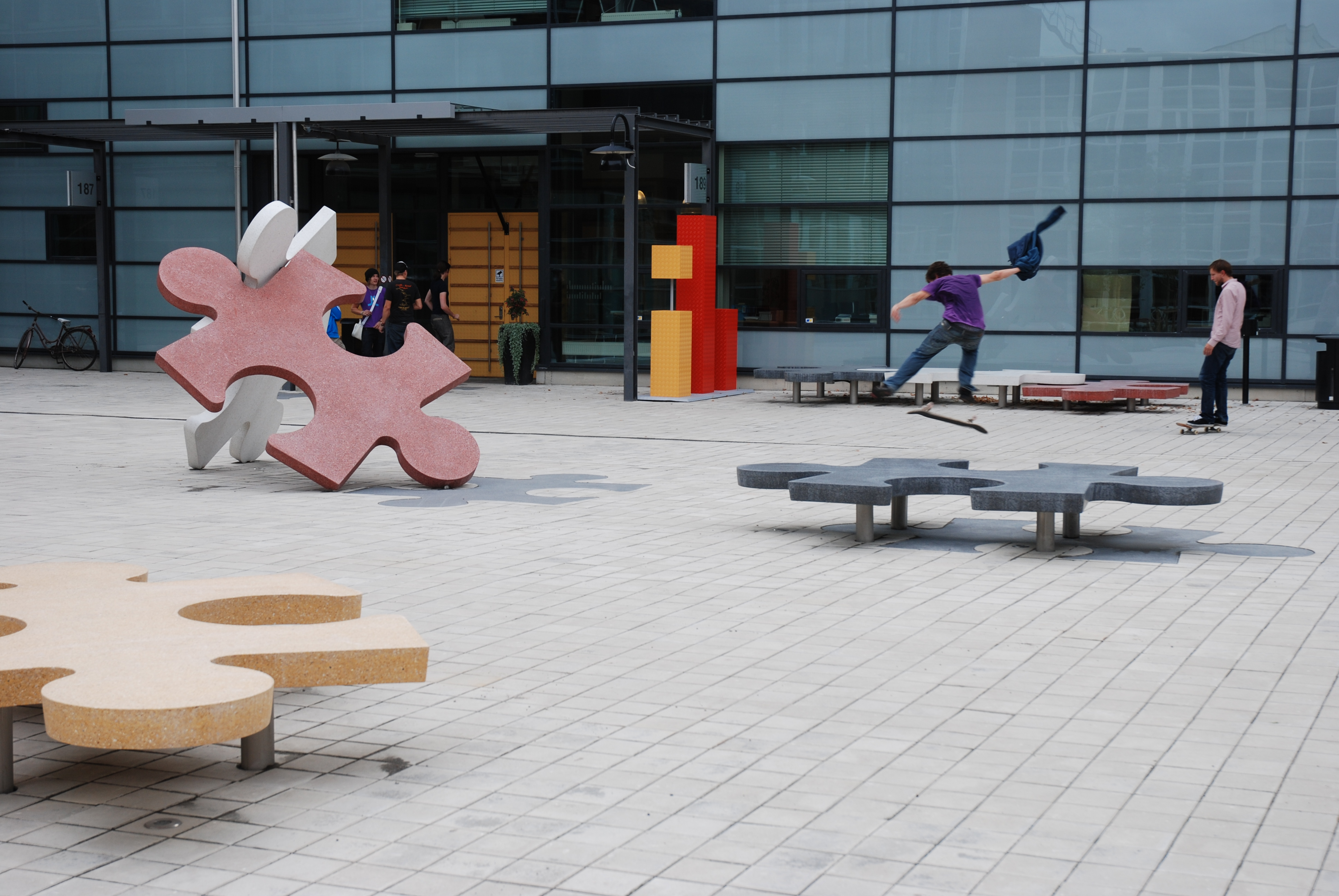 Sculptures "Puzzled" (part), by Ann-Sofi Sidén 2008, at Campus Gärdet, Valhallavägen, Stockholm, Sweden